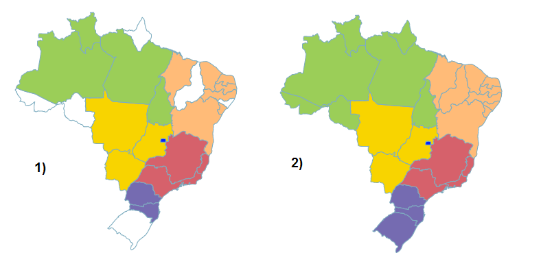 Distribution in the different Brazilian regions of Lentibulariaceae (1- Genlisea A. St.-Hil and 2- Utricularia L.).